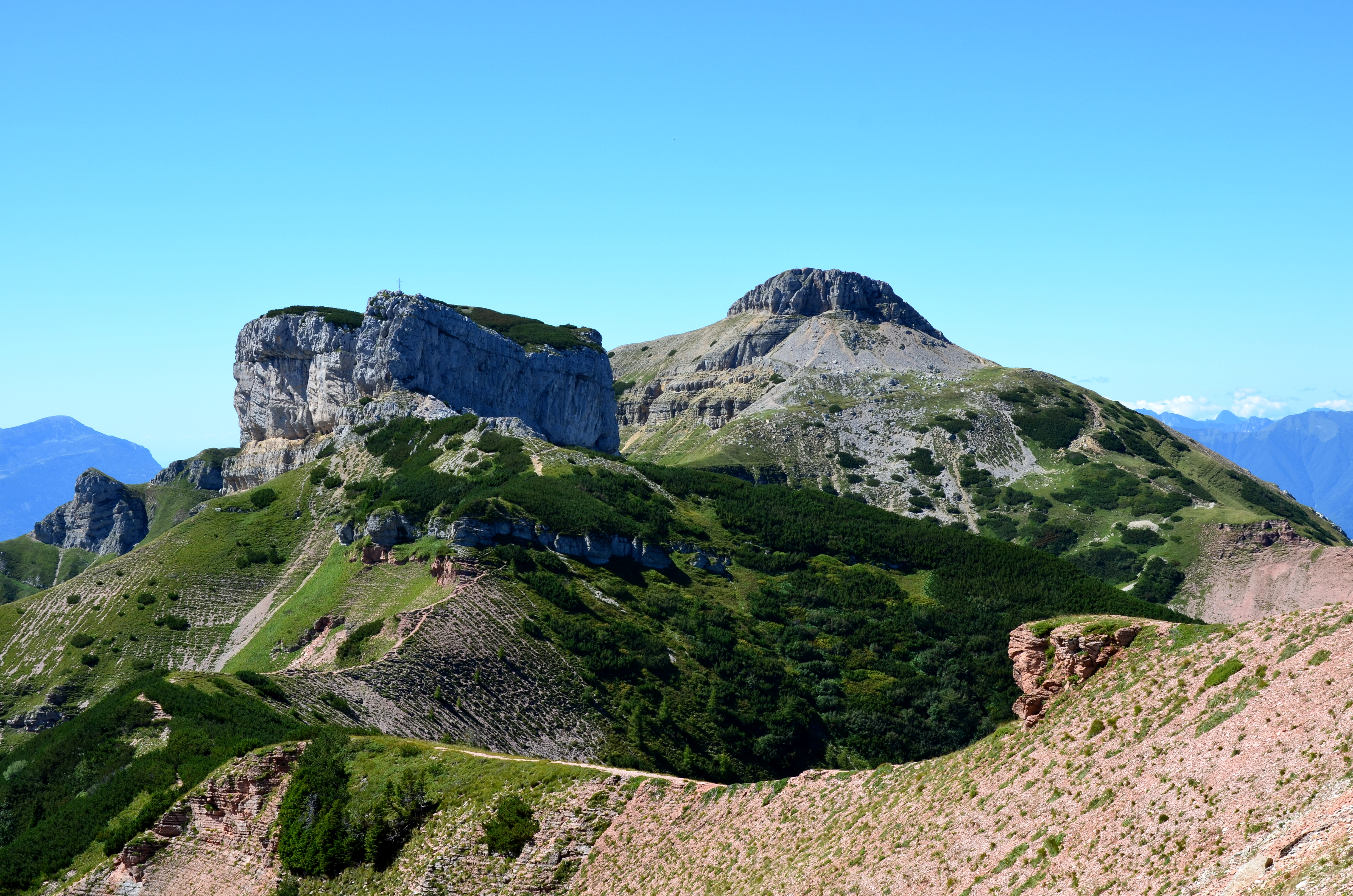 Dos d'Abramo e Monte Cornetto